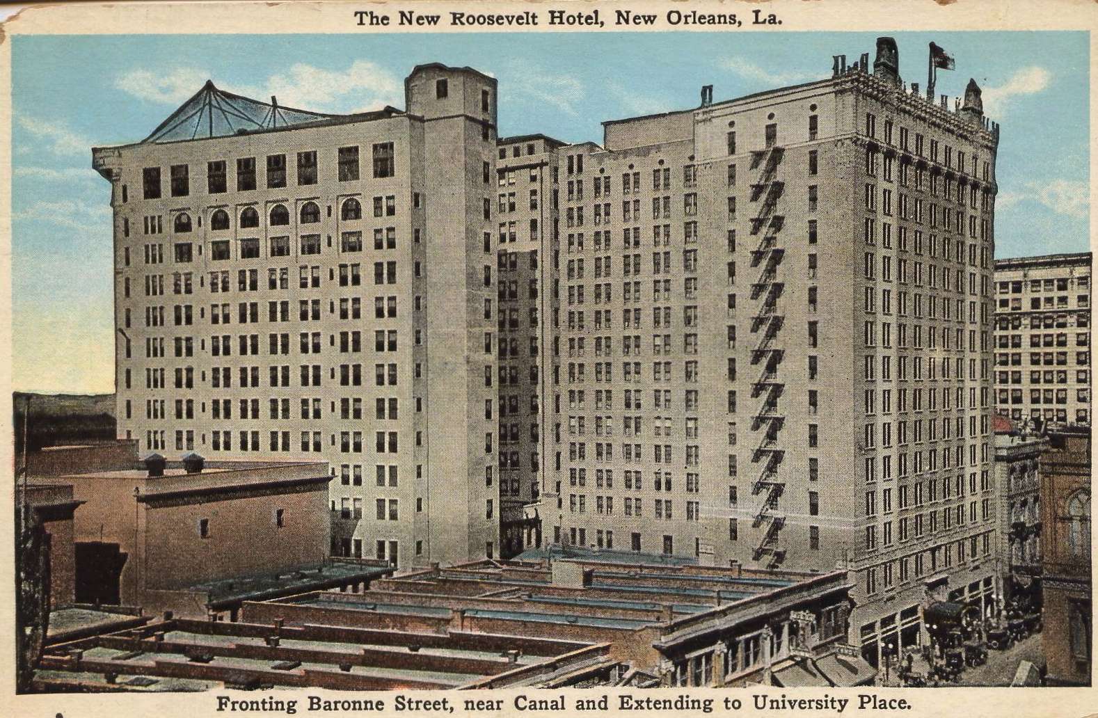 Postcard of New Orleans: The Roosevelt Hotel